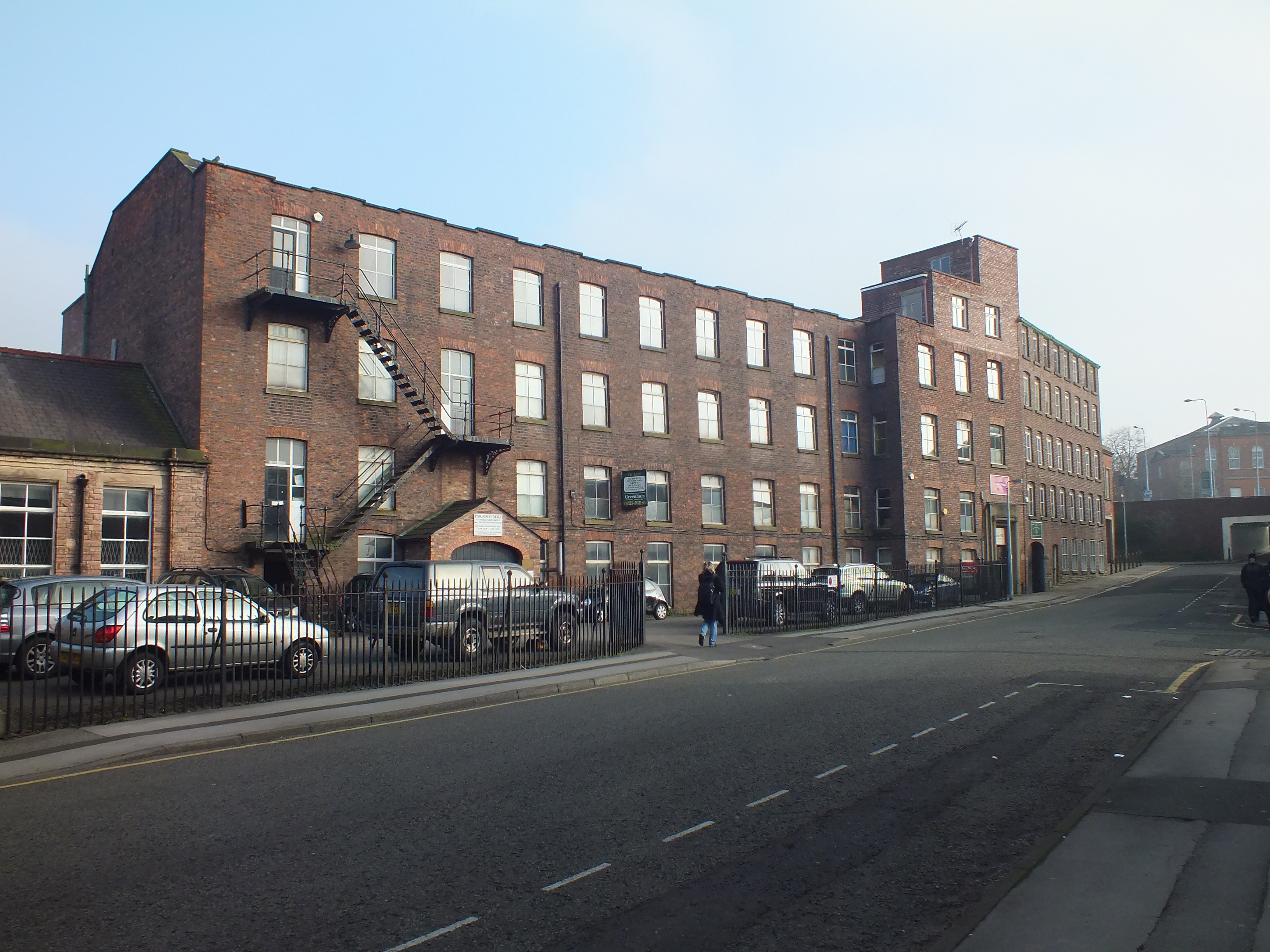 Macclesfield was a town of silk mills Paradise Mill This museum has 26 working Jacquard Looms.